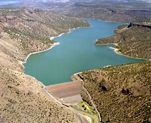 Arthur R. Bowman Dam (formerly Prineville Dam) is an earthfill dam structure on the Crooked River about 20 miles upstream from Prineville, Oregon.